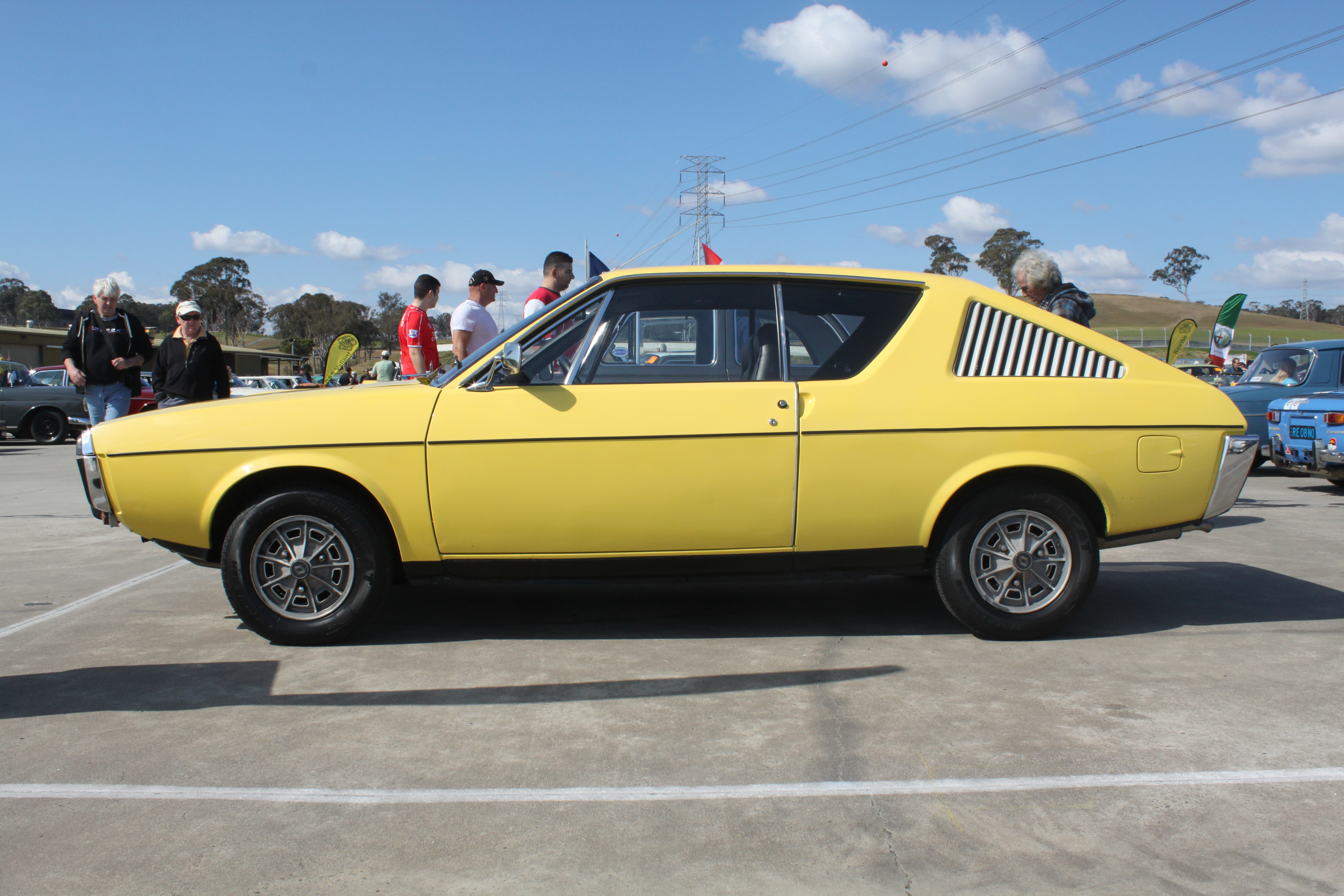 SHannon's Classic, Eastern Creek, NSW August 2015